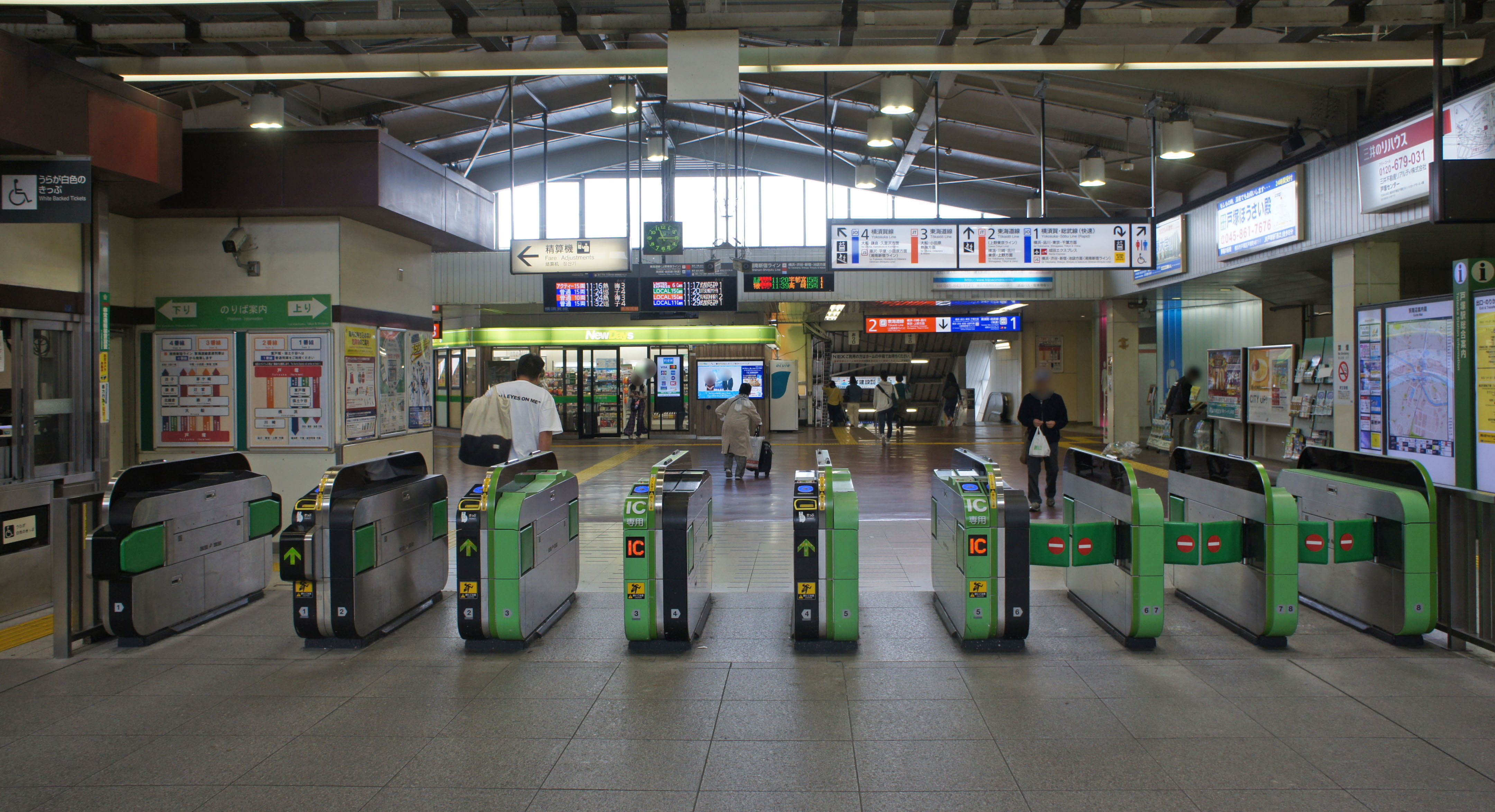 Upper-Level Gates of JR Totsuka Station